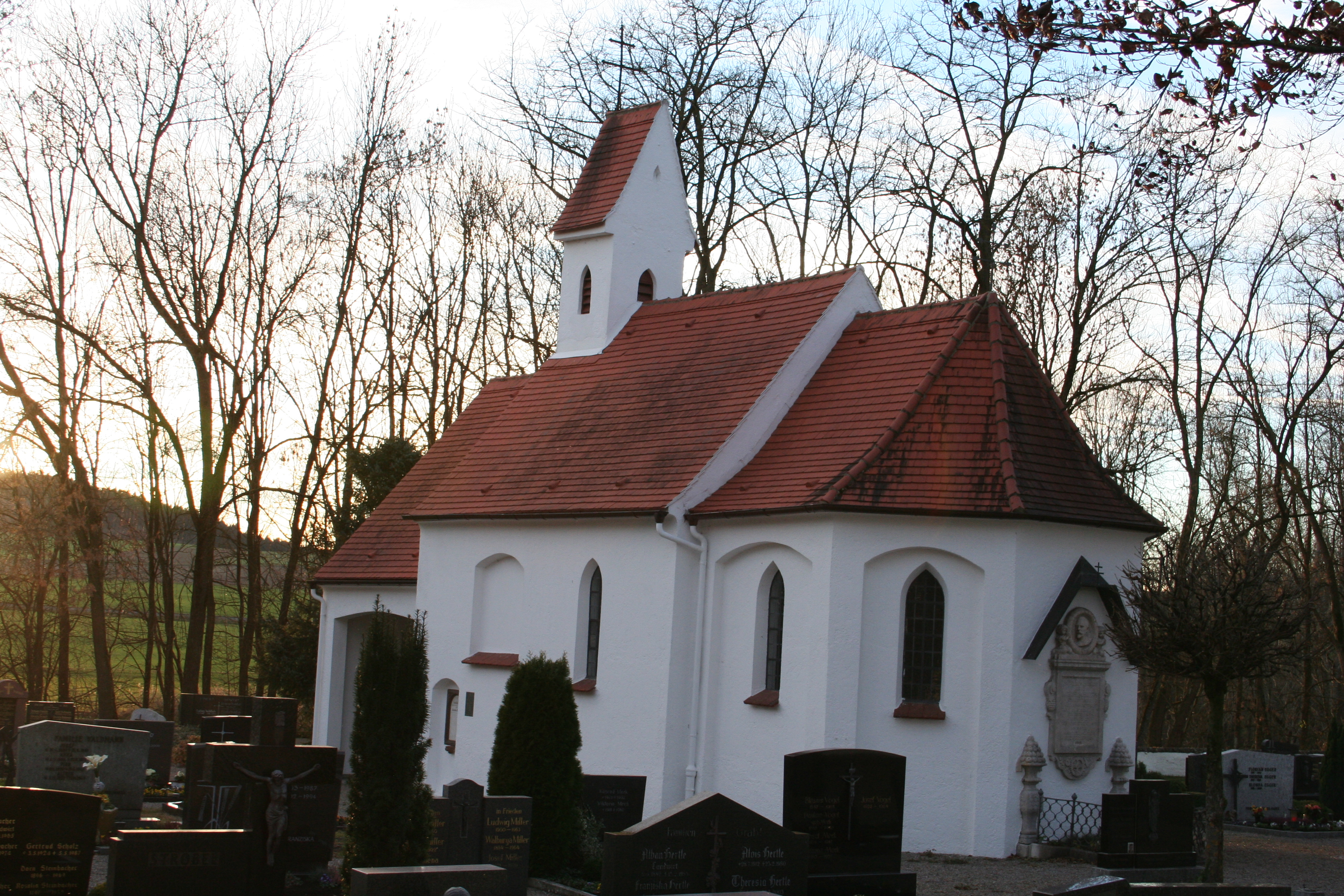 cemetery chapel Niederraunau